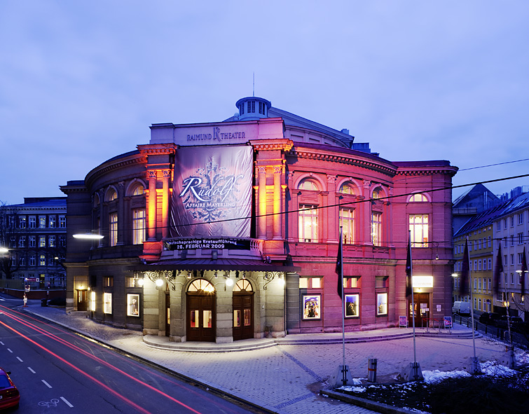 Raimund Theater